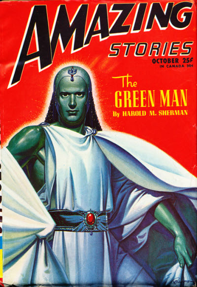 Cover of Amazing Stories, October 1946